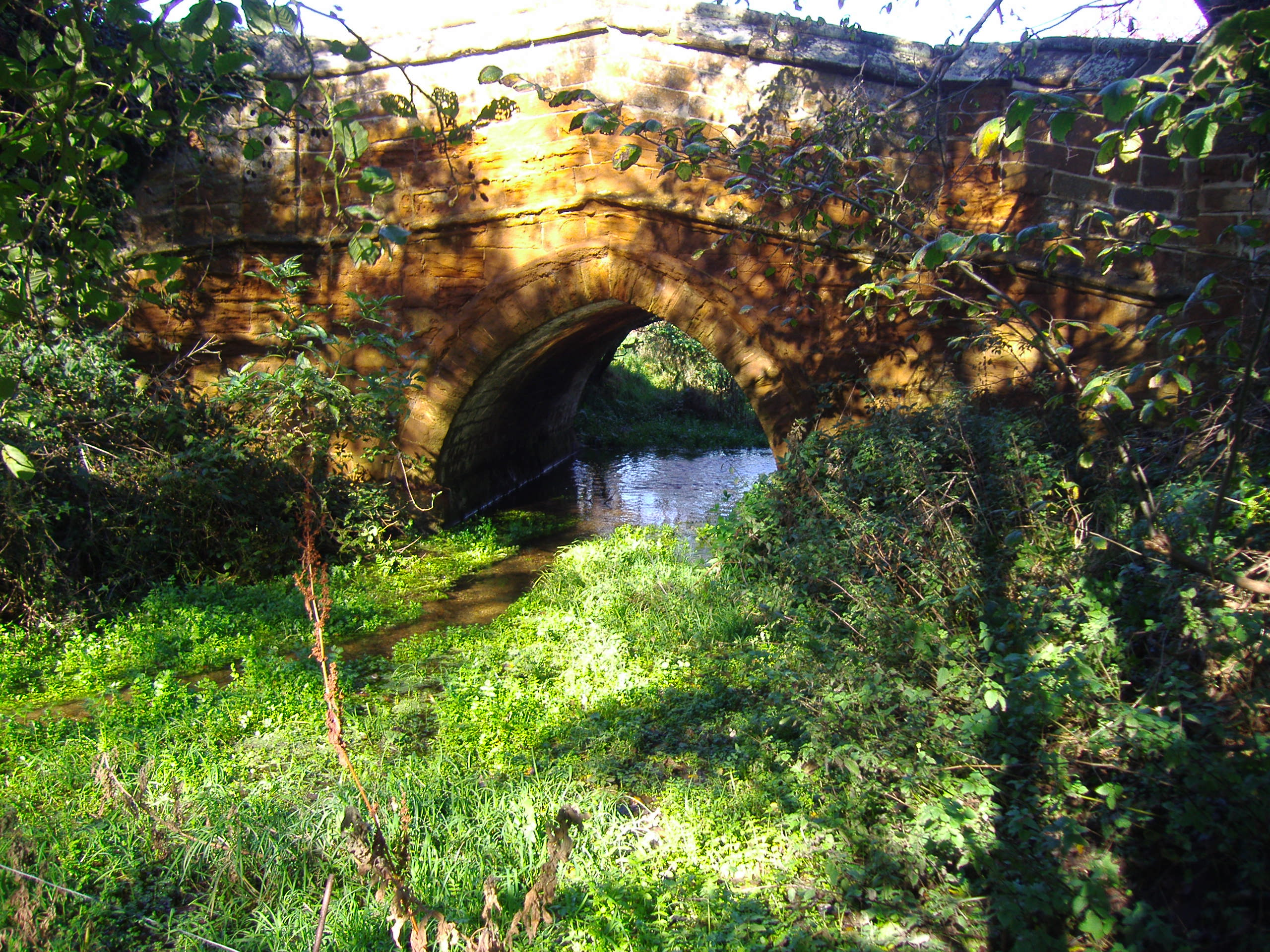 A Digital Photograph of the River Hun taken on the 17th October 2007